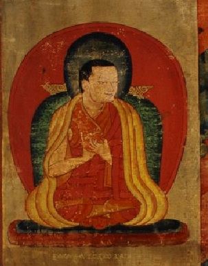 Sanggye On Drakpa Pel, b.1251 - d.1296, 4th Abbot of Taklung Monastery